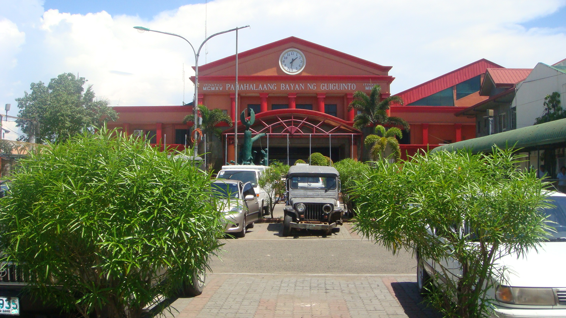 Guiguinto, Bulacan Town Hall